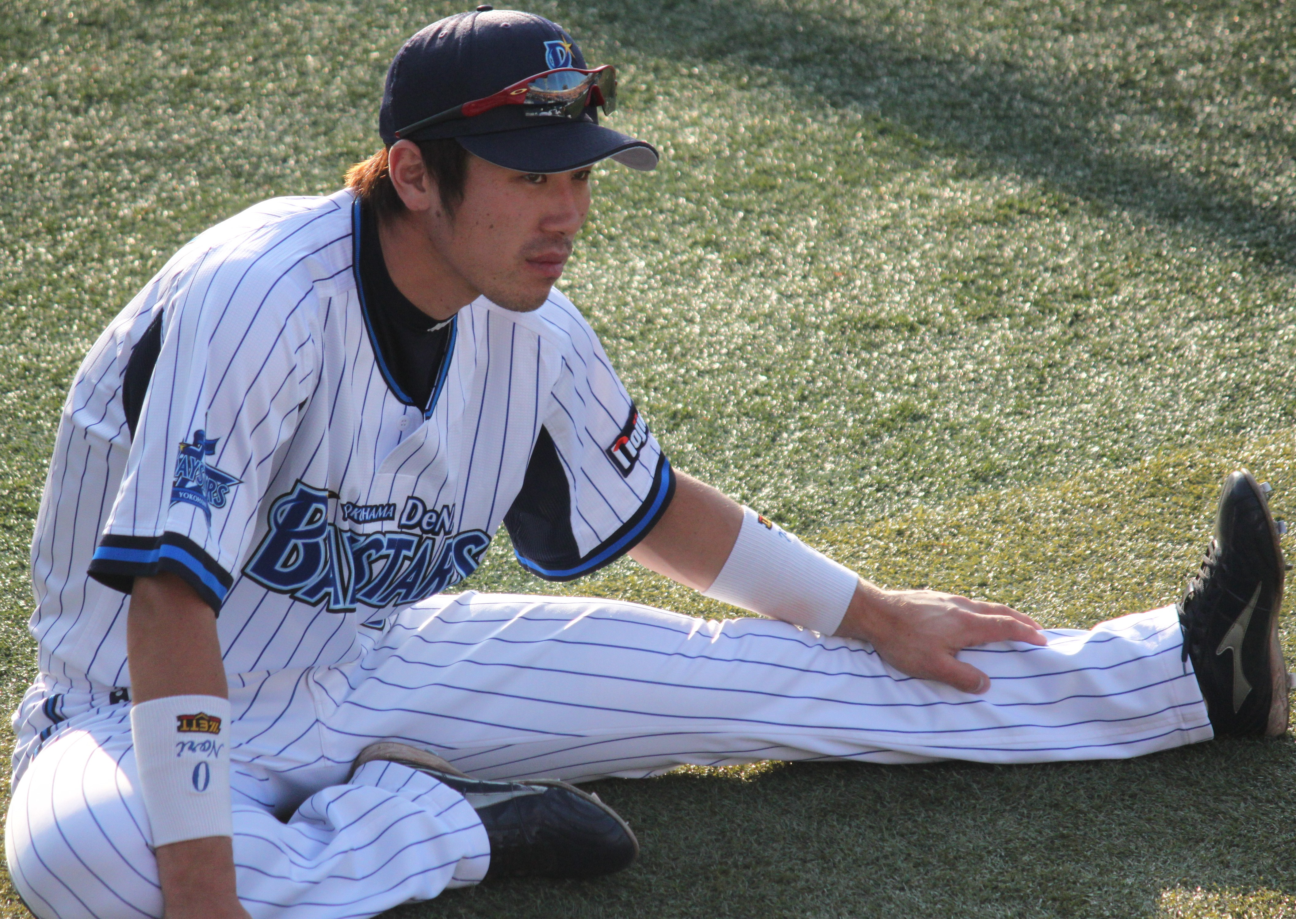 Noriharu Yamazaki, infielder of the Yokohama DeNA BayStars, at Yokohama Stadium.